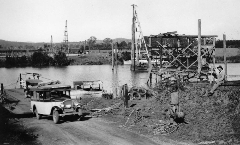 Bridge construction on the Logan River, 1930 Cars crossing Logan River on the old ferry next to the foundations rising for the new bridge.